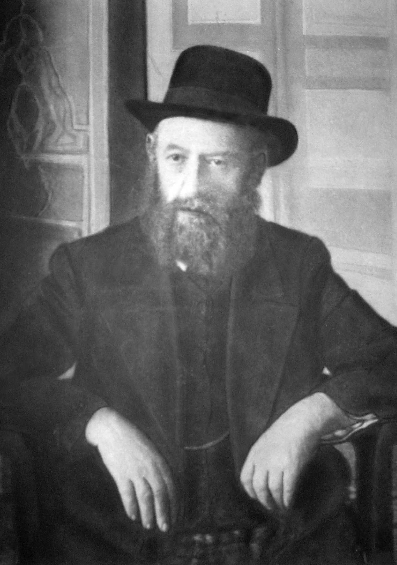 Rabbi Sholom Dovber Schneersohn of Lubavitch, photographed for a Russian passport at Rostov, 192